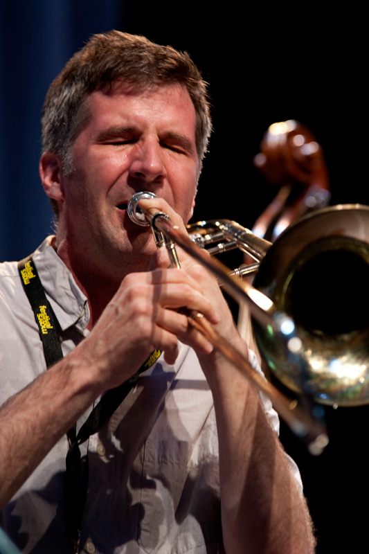 Jeb Bishop, moers festival 2010